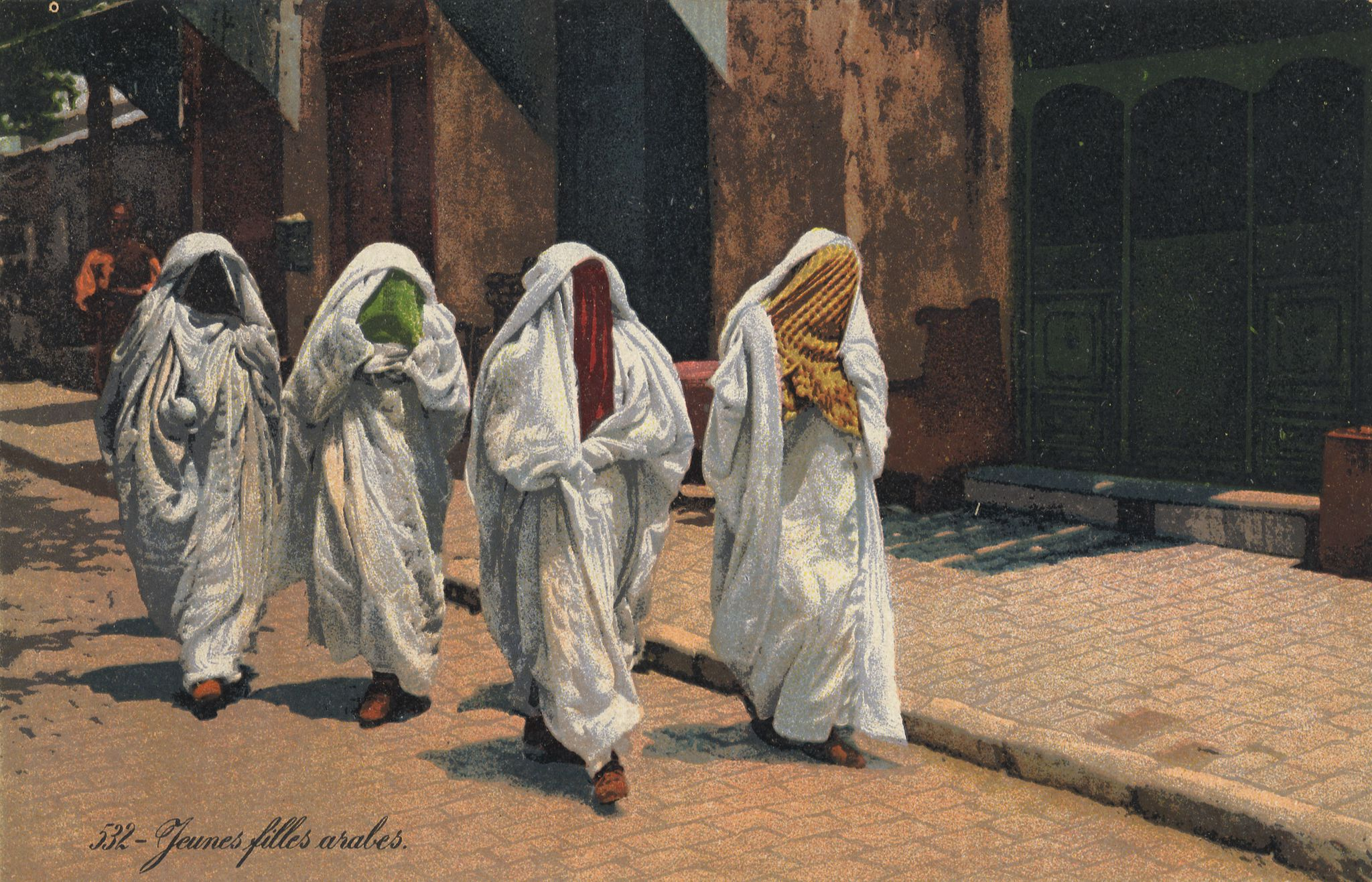 532 - Young Arab girls.